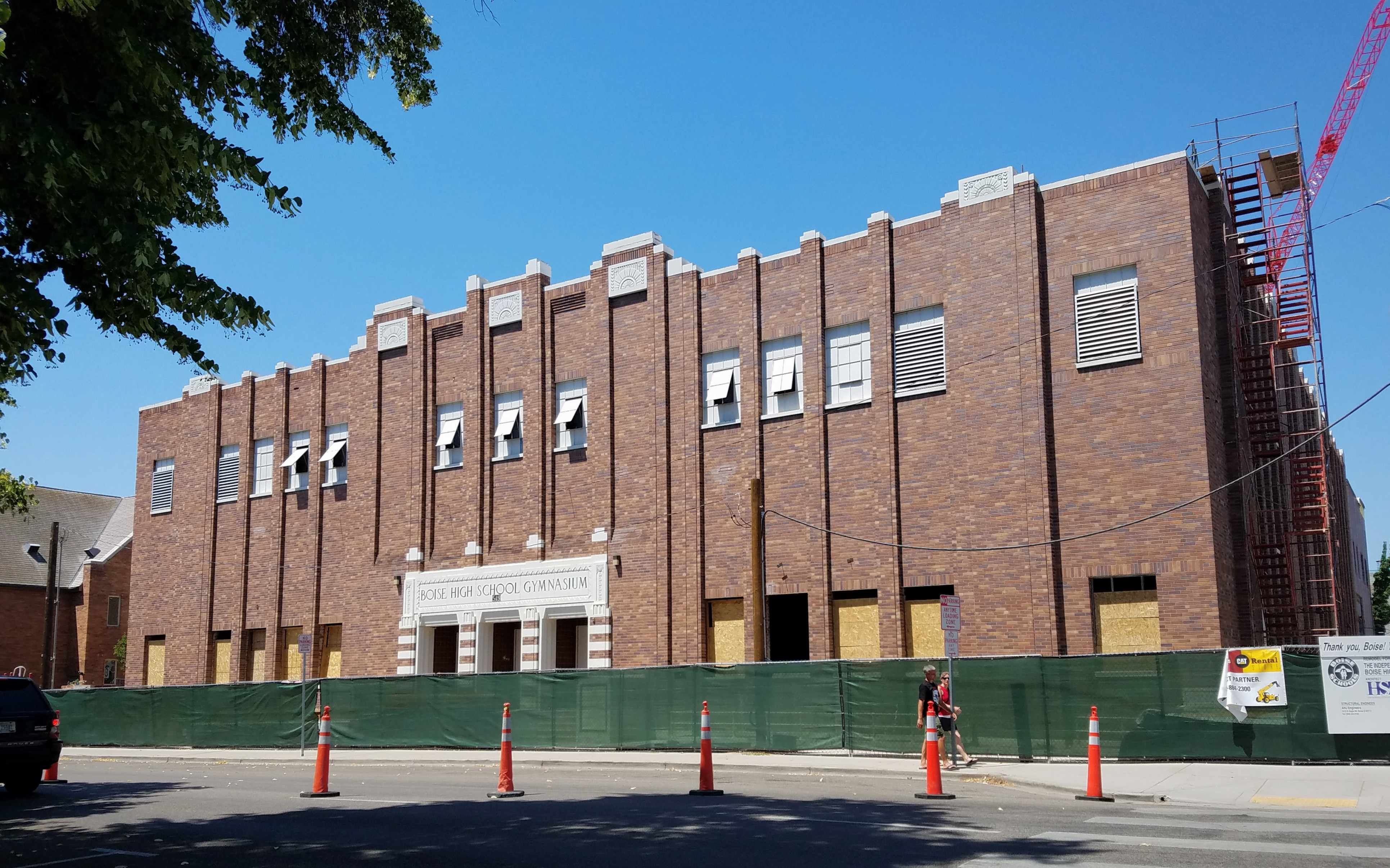 The Boise High School gymnasium (1936) was designed by Tourtellotte and Hummel and constructed by the Works Progress Administration. The Art Deco building is part of the Boise High School Campus and is a contributing resource in the Fort Street Historic District.